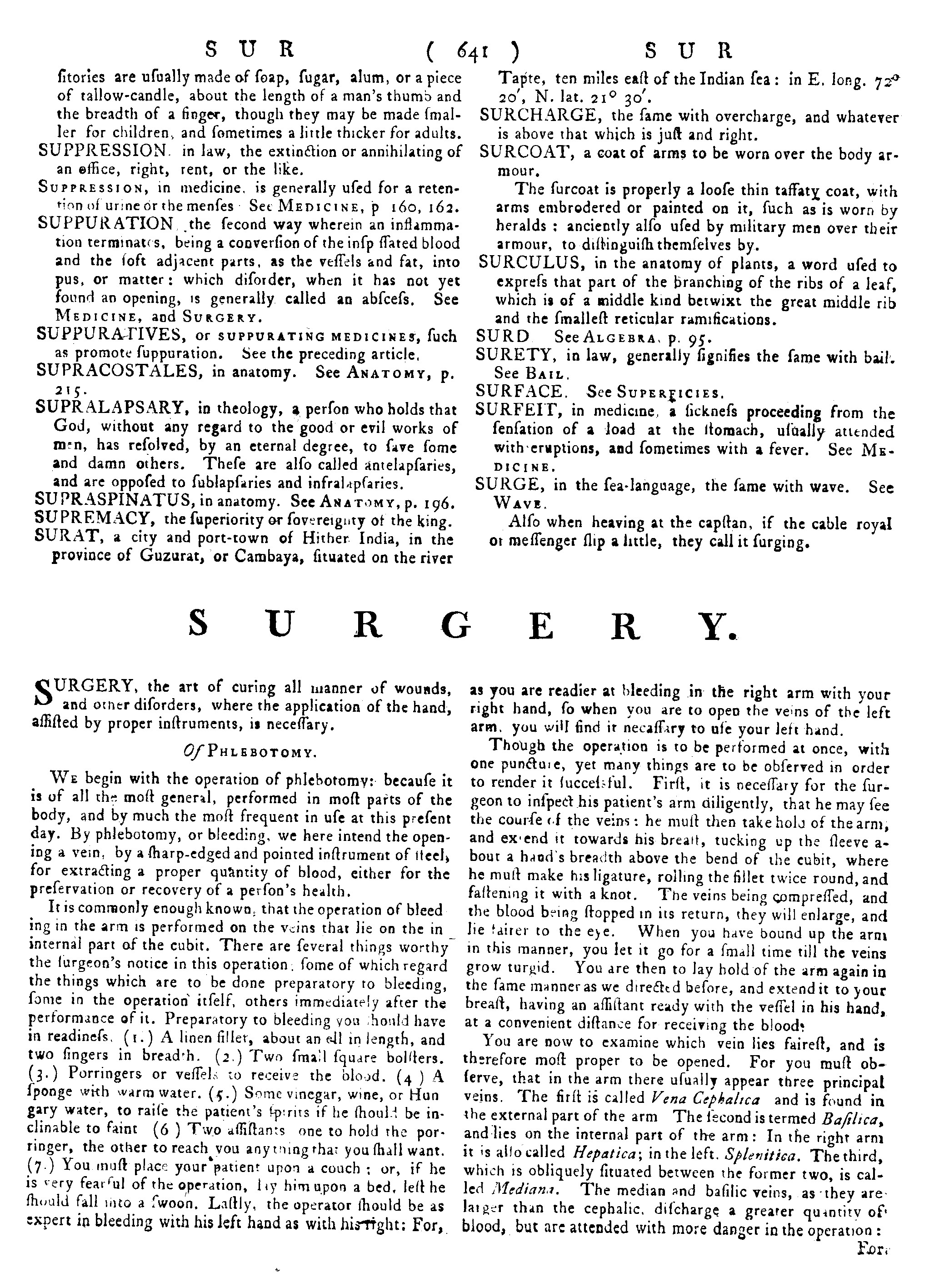 page from Britannica 1st edition